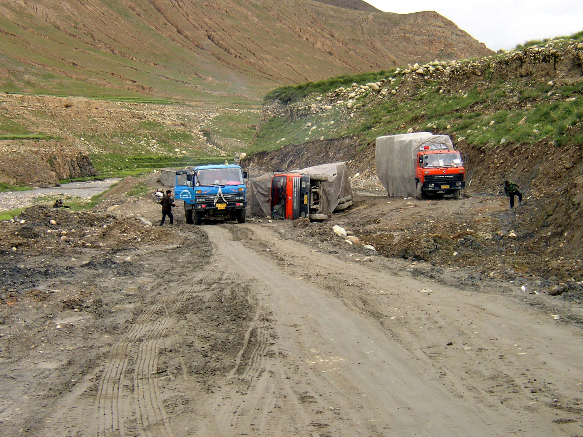 The Friendship Highway, principal road between Lhasa and the border with Nepal in 2005. Today, the road is paved and quite well developed.